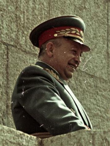 Defence minister general István Bata and prime minister András Hegedüs at the workers procession on the 1st of May, 1955, in Budapest